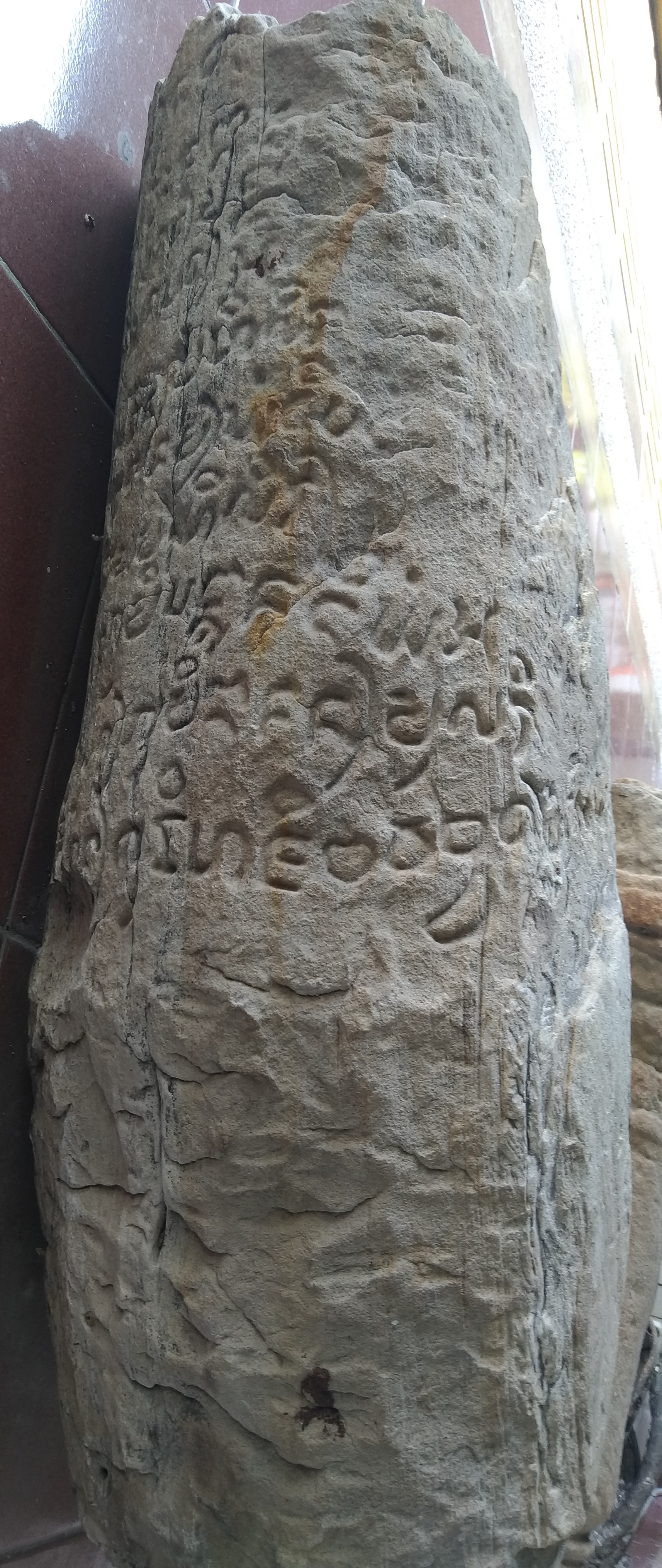 Panai Inscription, also called Batugana I Inscription, found around Bahal I Temple, in Bahal village, Portibi district, North Padang Lawas Regency, North Sumatra Province, Indonesia. Collection of the North Sumatra Provincial State Museum.